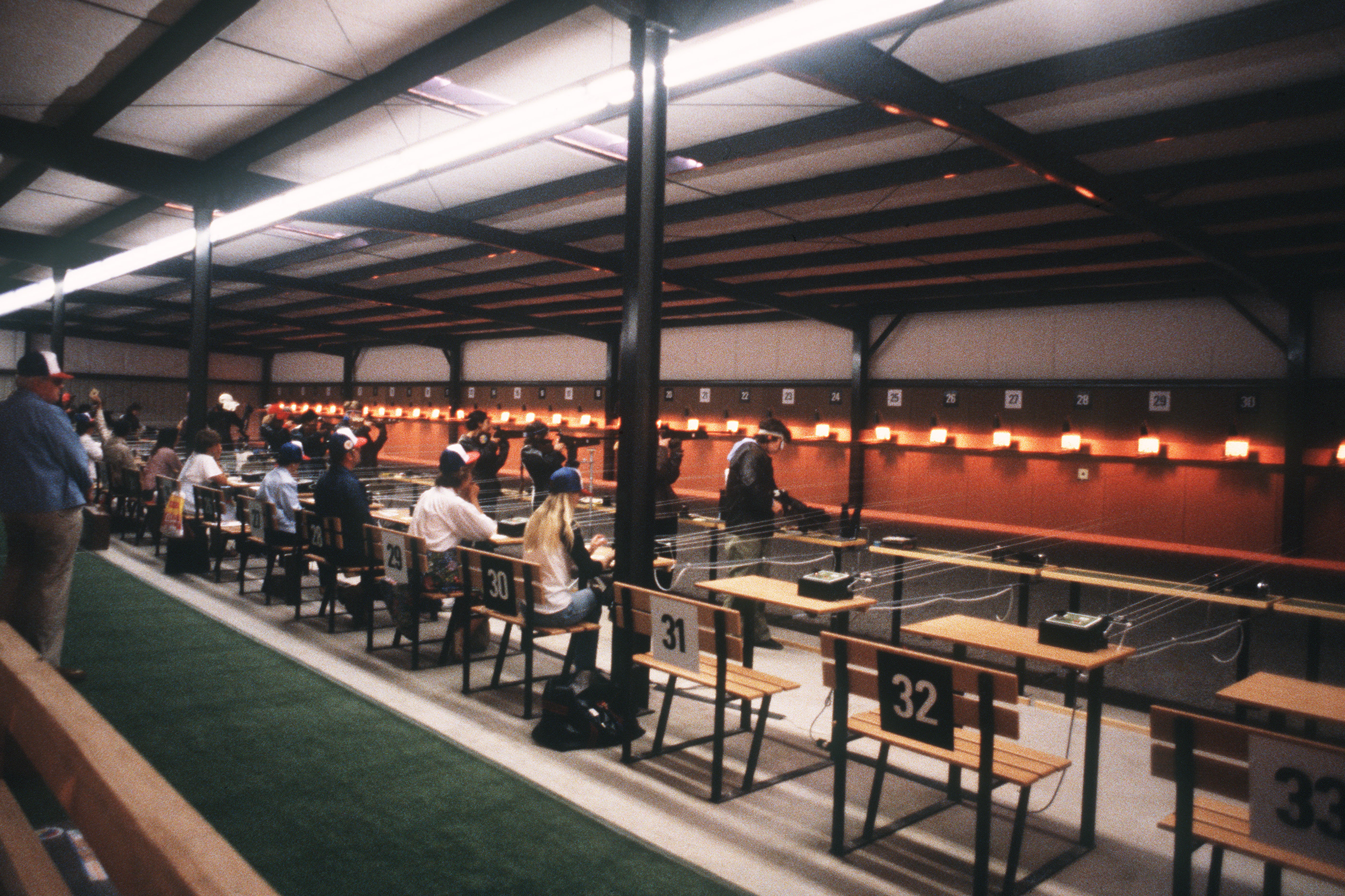 An air rifle event takes place indoors during the Olympic Shooting Range during Inaugural Competition. The international competition is serving as a test of the facility prior to the 1984 Olympic Games.